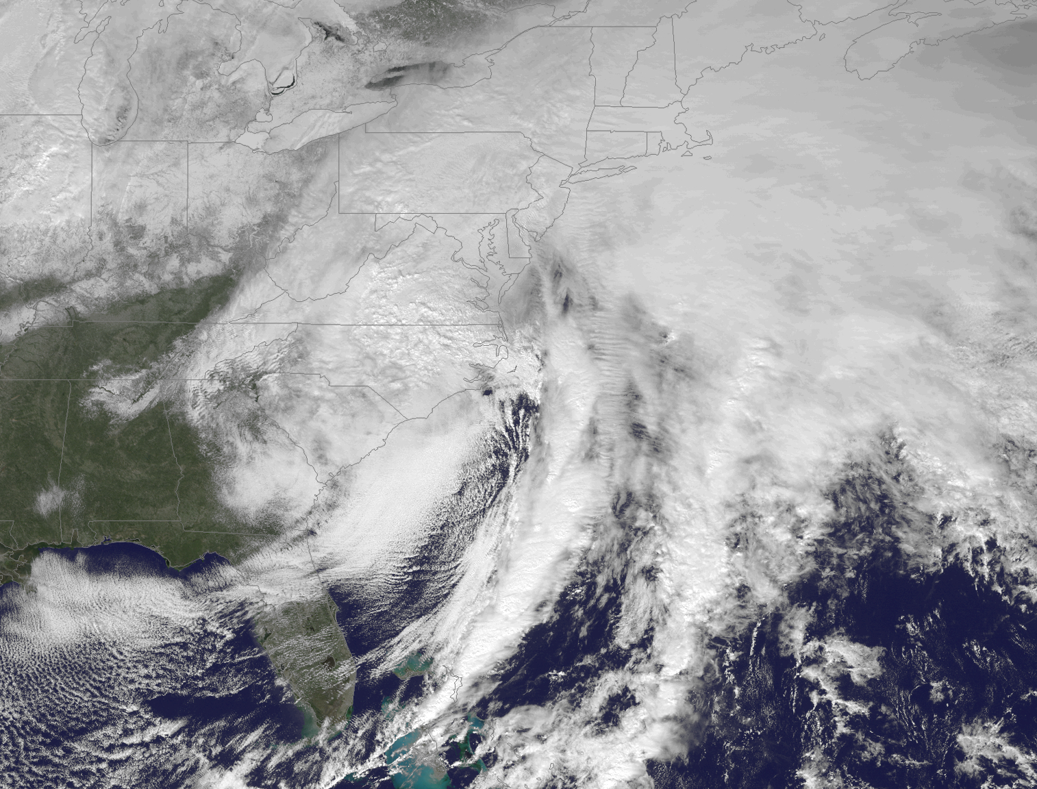 A large winter storm, classified by some as a bomb cyclone, tracked across the East Coast in February 2014, producing heavy snowfall.